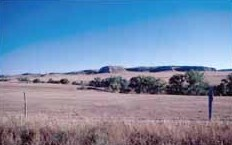 Signal Butte, a National Historic Landmark in Scotts Bluff County, Nebraska, United States.